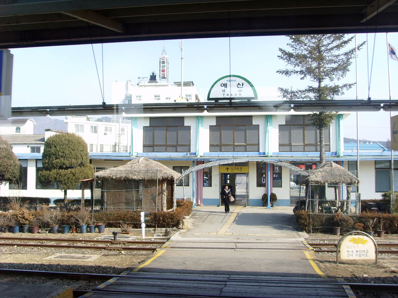 Janghang Line Yesan Station (Jugyo-ri, Yesan-eup, Yesan-gun, Chungcheongnam-do, South Korea)